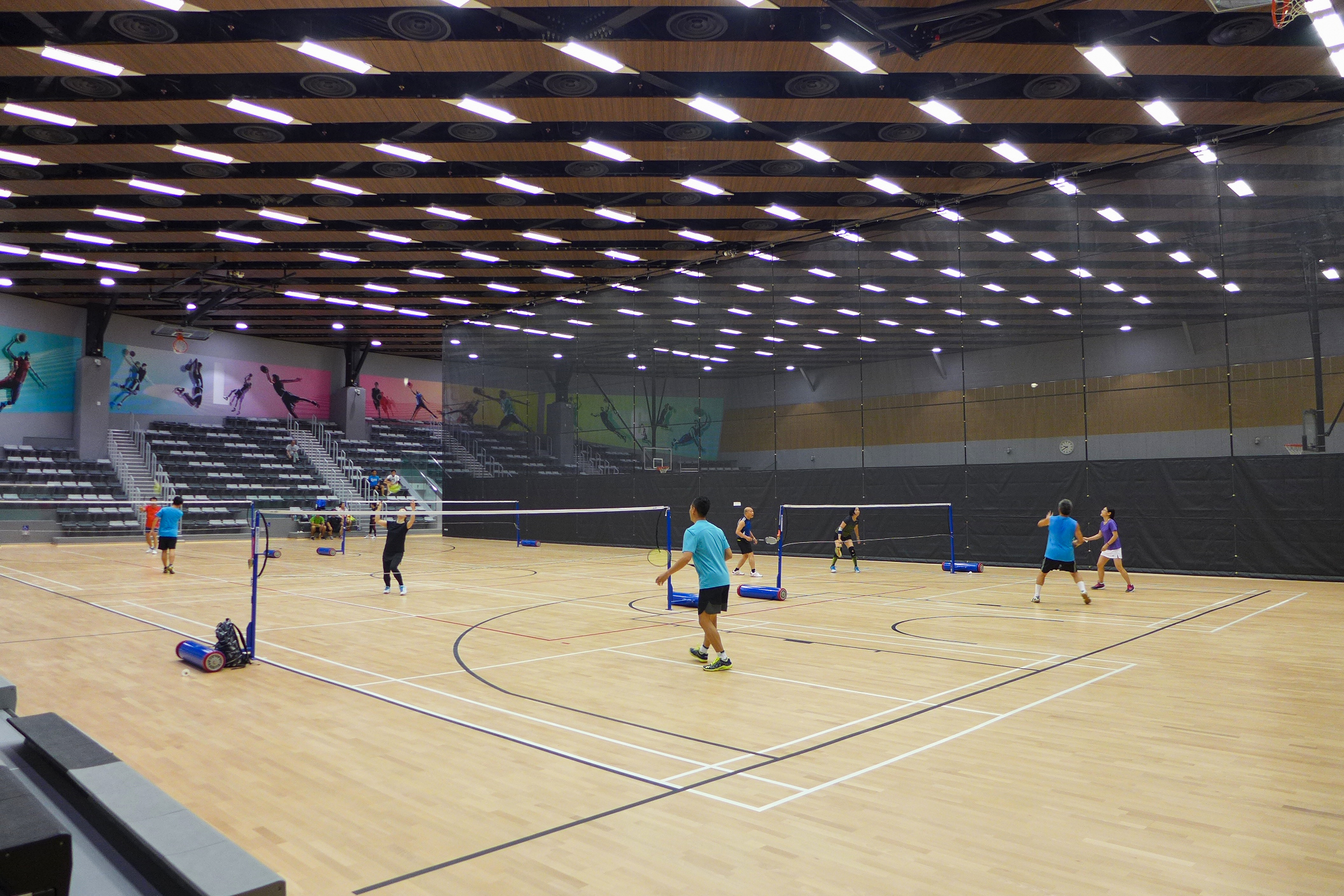 Yuen Long Sports Centre